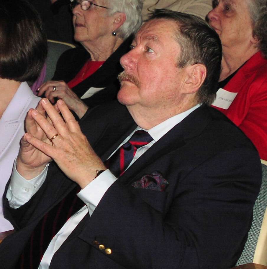 Robert Parker at the Manchester (N.H.) Library on May 17, 2006